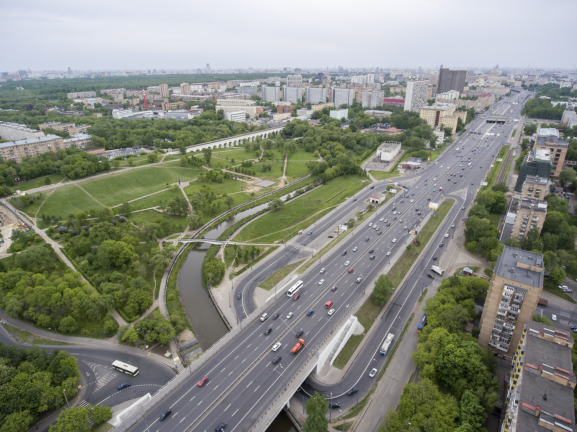 Mira Prospekt in Moscow, near Rostokino Aqueduct